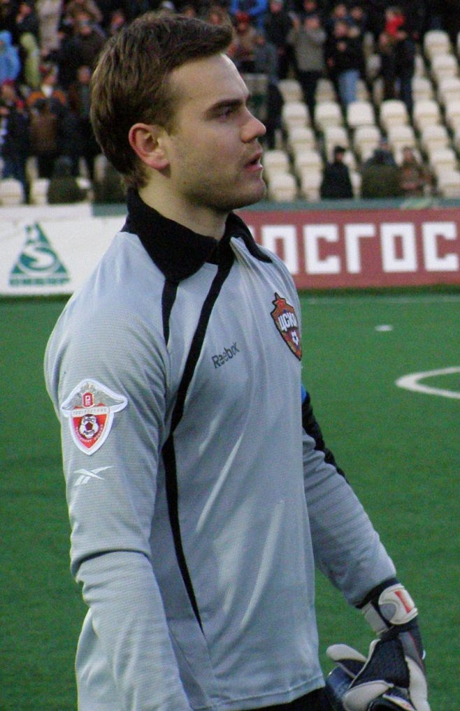 Igor Akinfeev in action for PFC CSKA Moscow